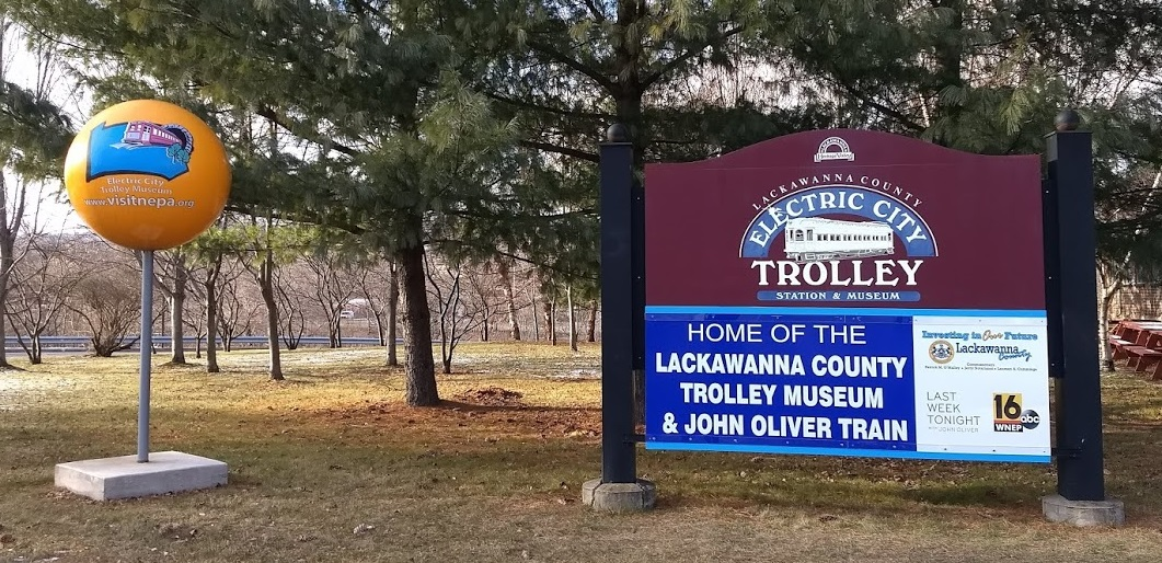 Signage outside the Electric City Trolley Museum in late December 2017